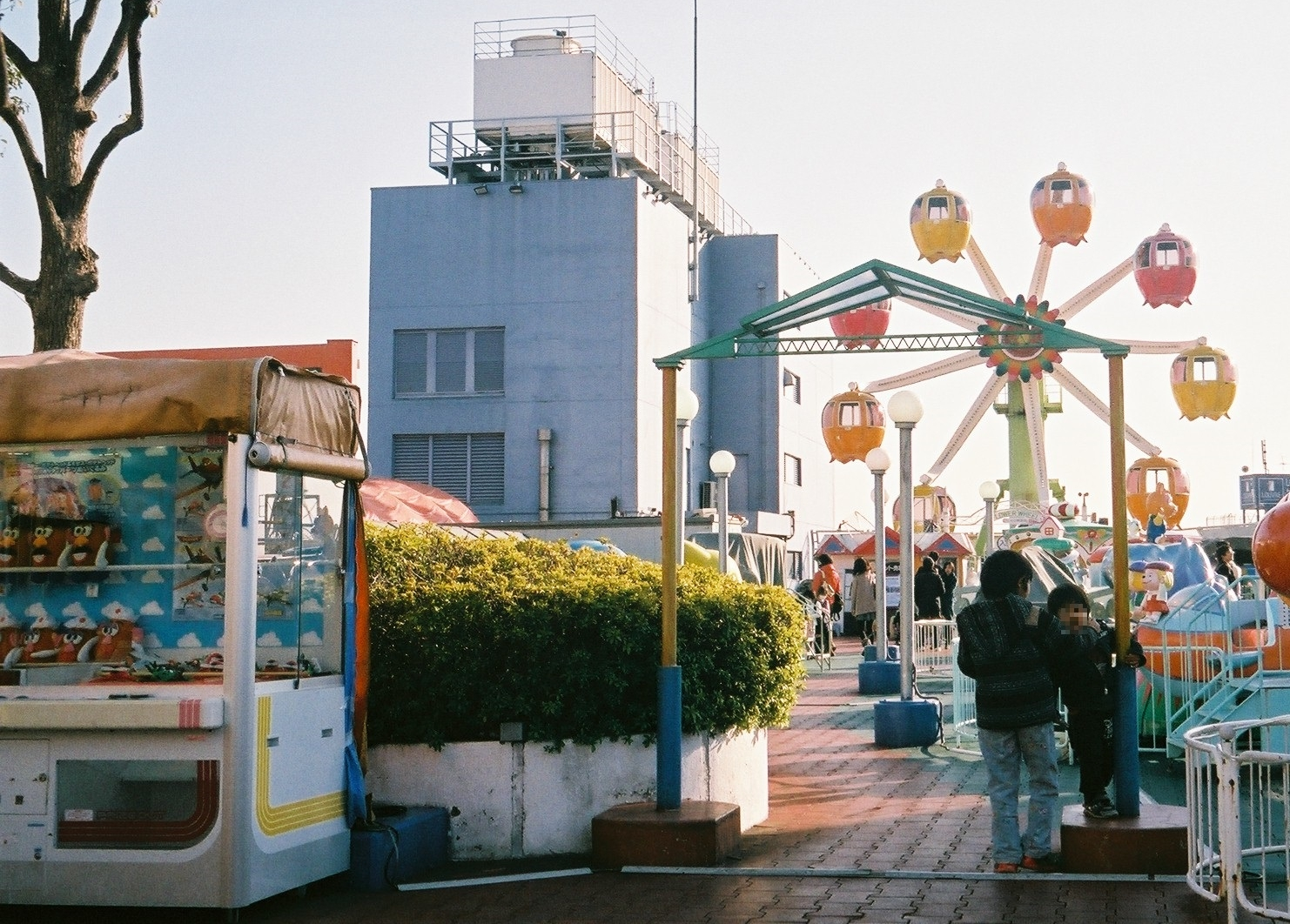 Rooftop playground of Tokyu Plaza Kamata, Tokyo Japan